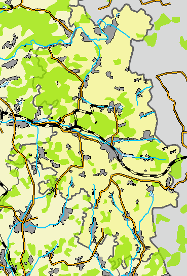 Krasnopilskiy raion, Sumy oblast, Ukraine